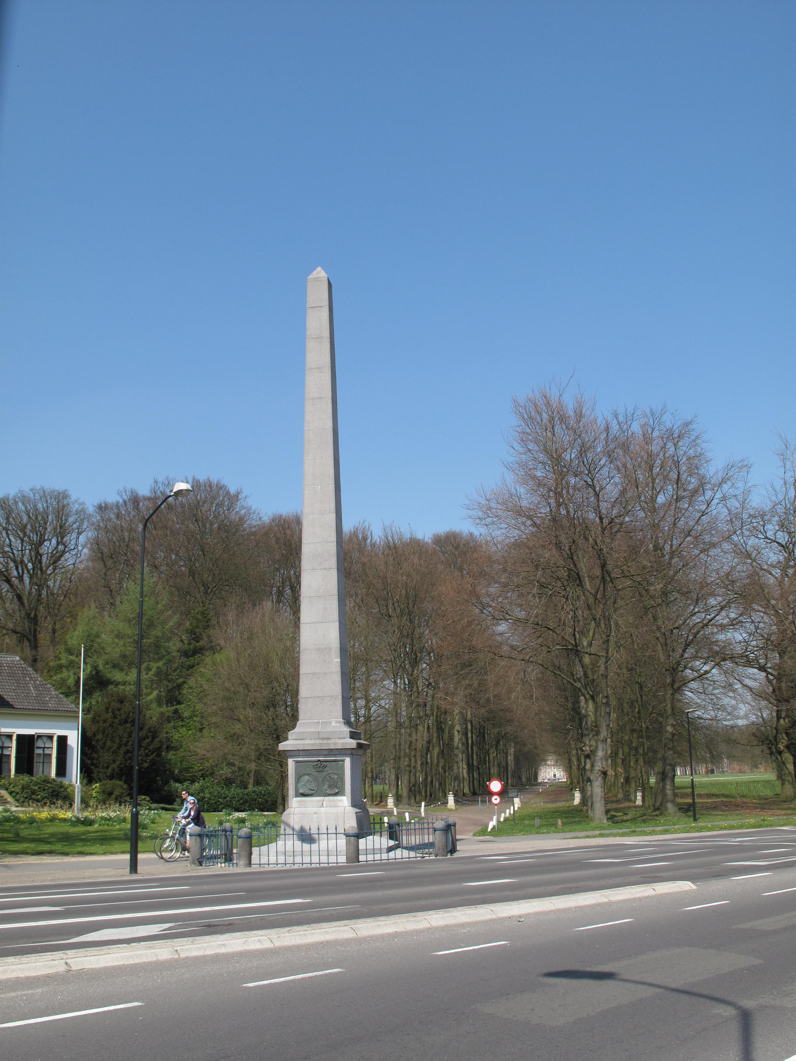 Apeldoorn, monument: de Naald